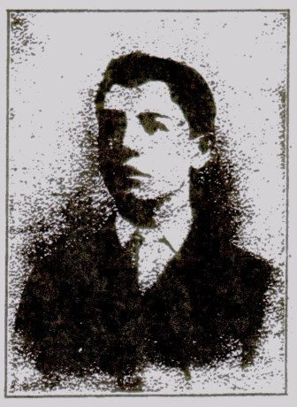 Italian American mobster Johnny Torrio in his young age